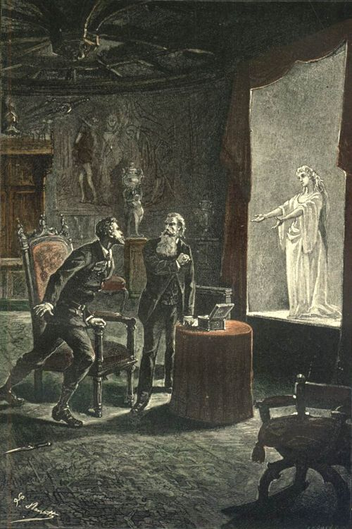 An illustration from Jules Verne's novel "The Carpathian Castle" (also published as "The Castle of the Carpathians", "The Castle in Transylvania", and "Rodolphe de Gortz; or the Castle of the Carpathians"). Česky: Ilustrace Léona Benetta k románu J. Verna